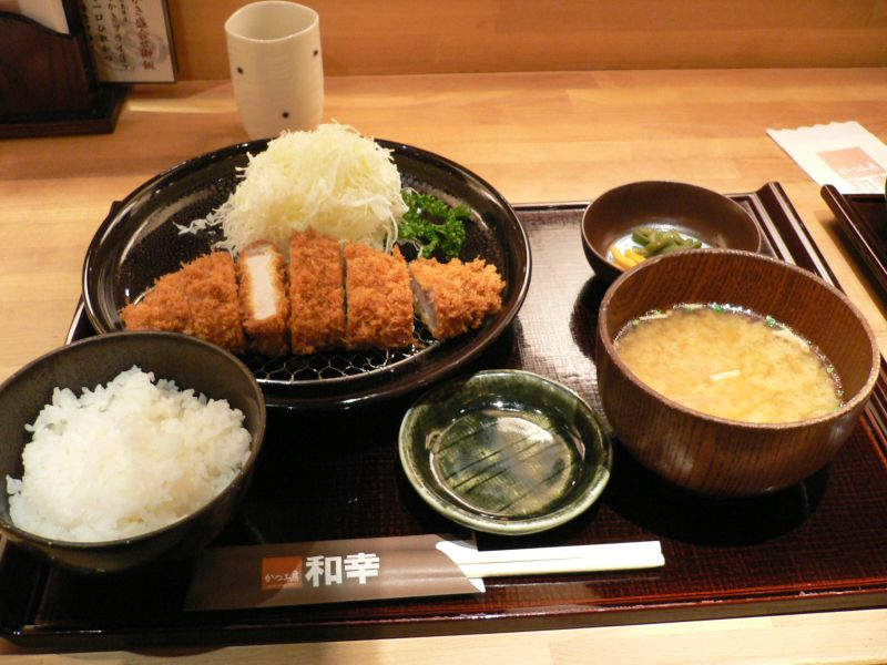 incredible pork cutlet